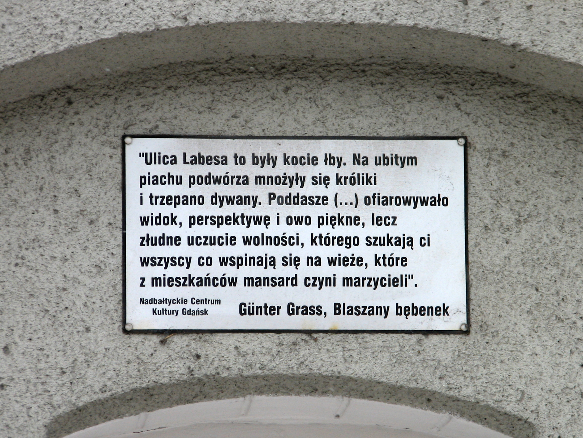 Quotation from "The Tin Drum" at Günter Grass pre-war house in Gdańsk.